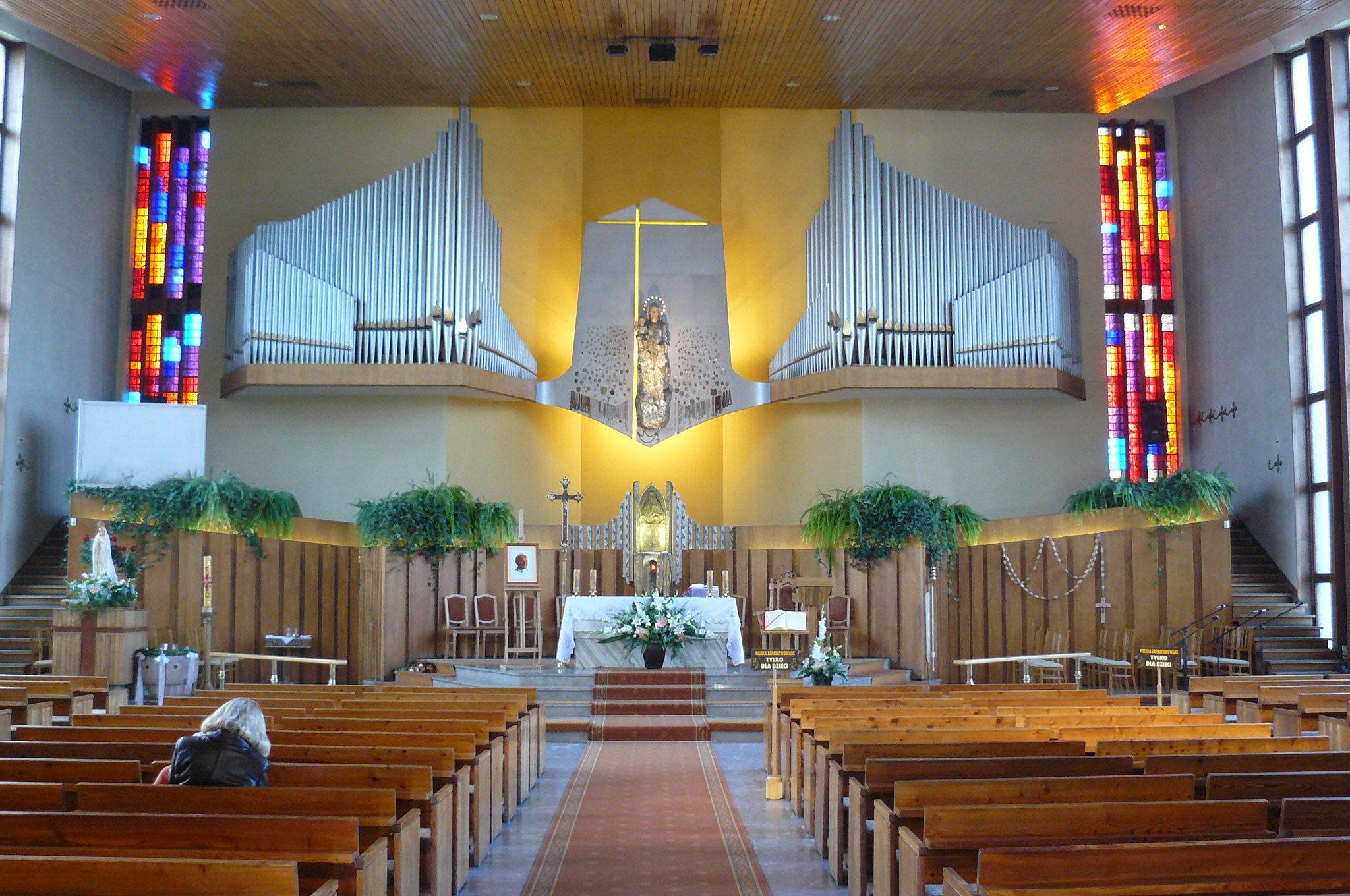 Imienia Maryi Church in Poznan.